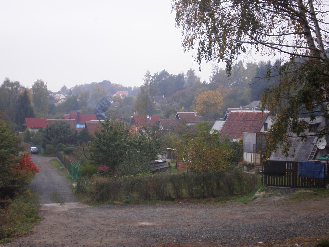 Podhrad (Cheb), Cheb district, Czech Republic